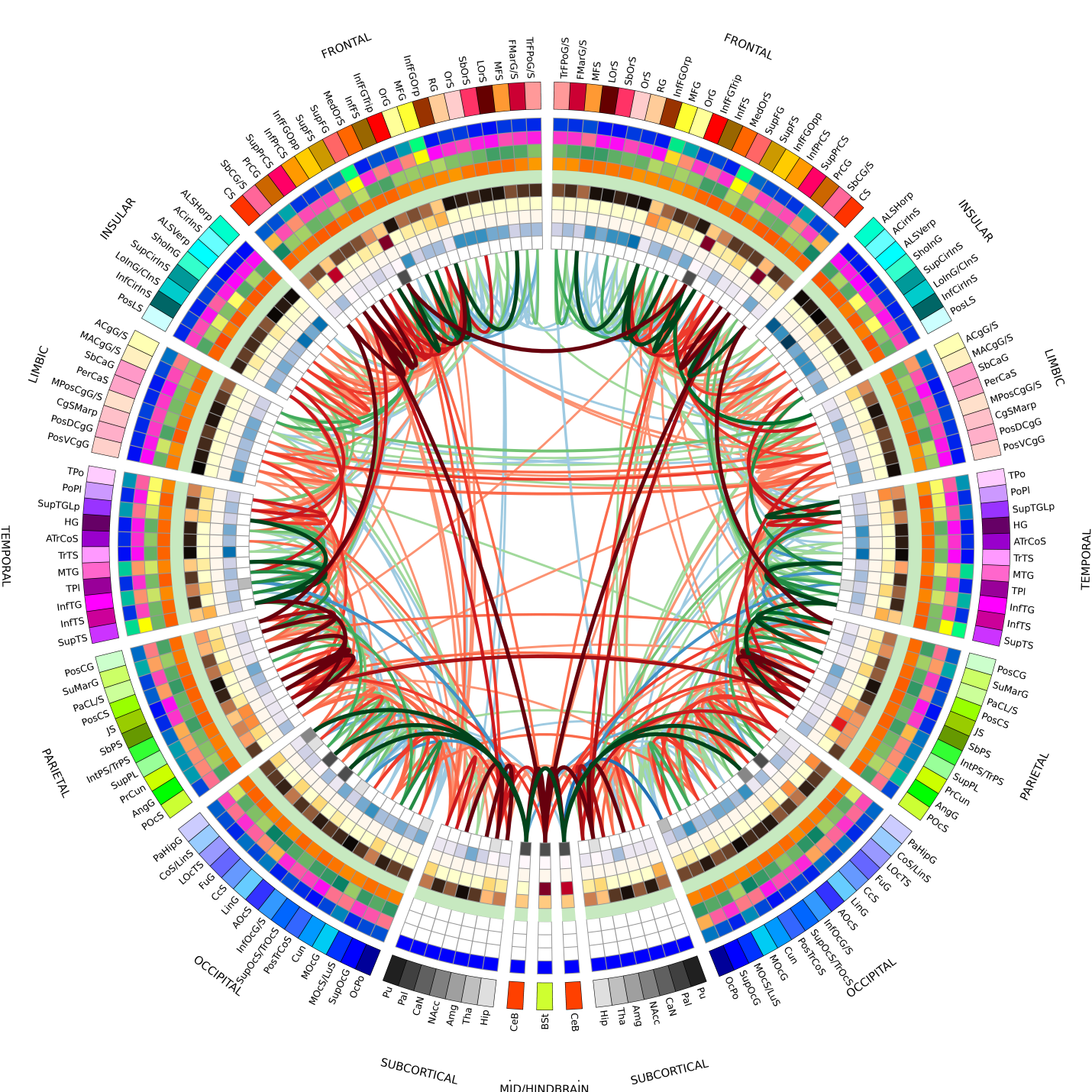 A connectogram of a healthy control subject, using an additional 5 nodal measures. Connectogram